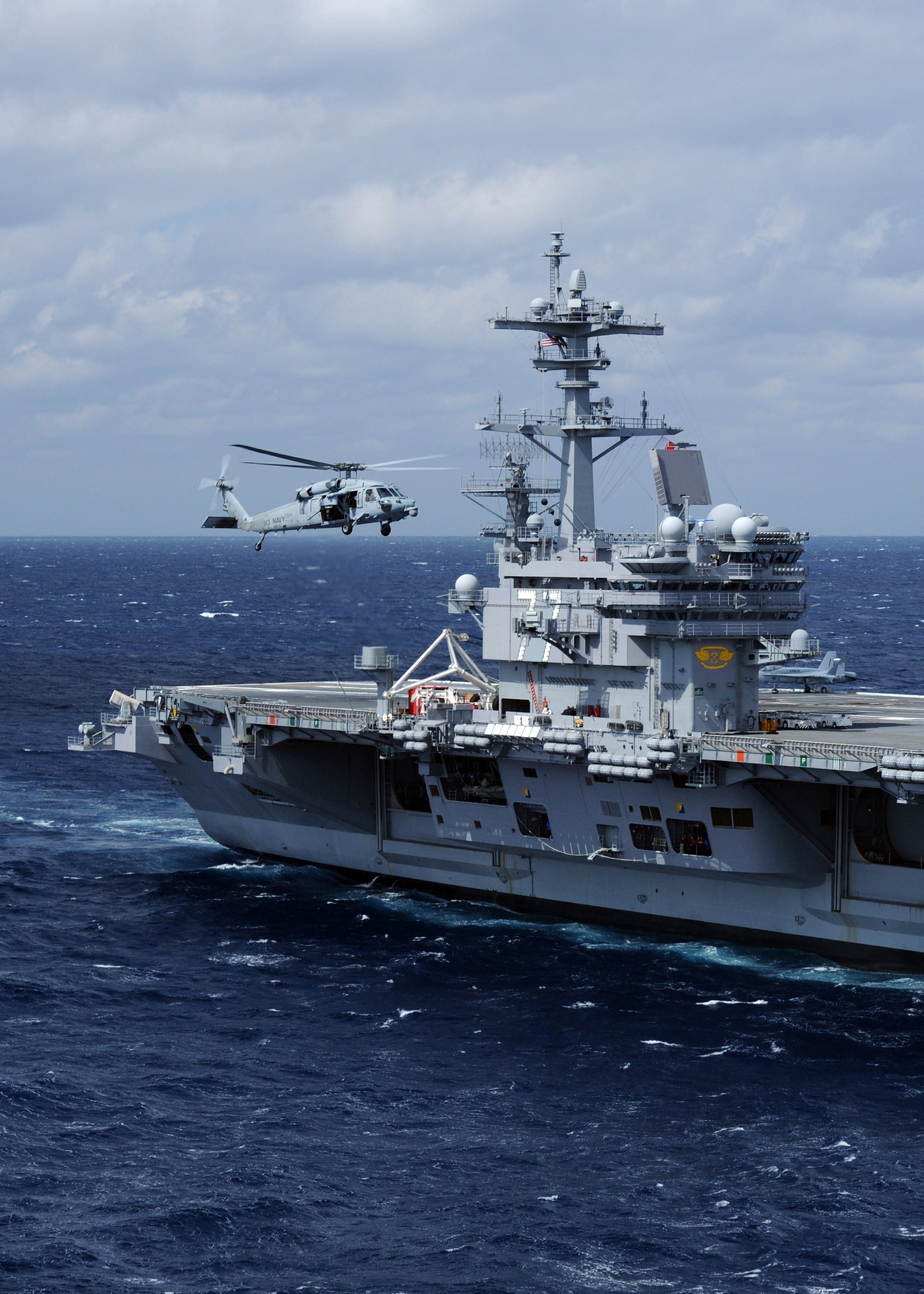 ATLANTIC OCEAN (March 3, 2010) An MH-60S Sea Hawk helicopter from Helicopter Sea Combat Squadron (HSC) 9 flies alongside the aircraft carrier USS George H.W. Bush (CVN 77). HSC 9 is attached to the George H.W. Bush Strike Group and is underway supporting fleet training operations. (U.S. Navy photo by Mass Communication Specialist 2nd Class Micah P. Blechner/Released)